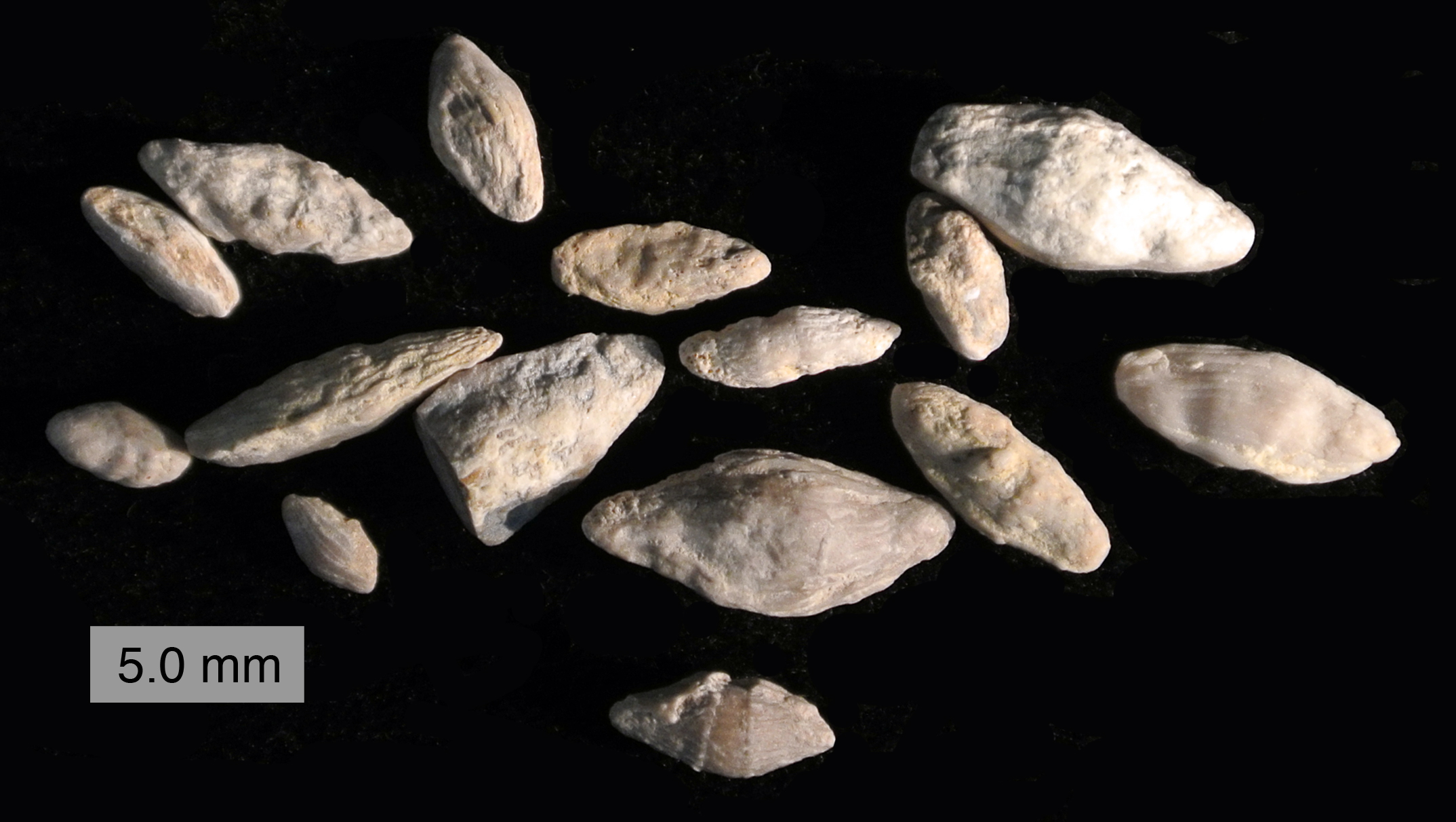 Fusulinids from the Topeka Limestone (Virgilian, Upper Carboniferous) of Greenwood County, Kansas, USA.